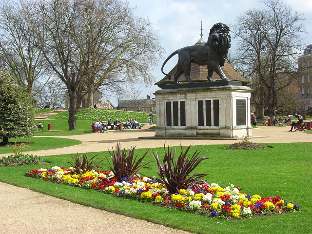 A lot of effort goes into the creation of colourful floral displays in the gardens. Here polyanthuses provide a garish splash of colour in front of the Maiwand Lion, a memorial to lives lost during the Afghan Wars.